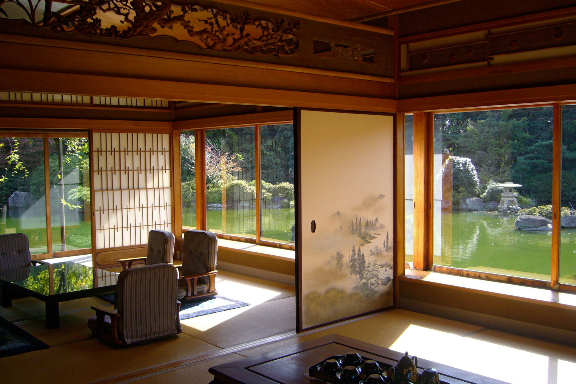 Chokyutei in Kainan, Wakayama prefecture, Japan